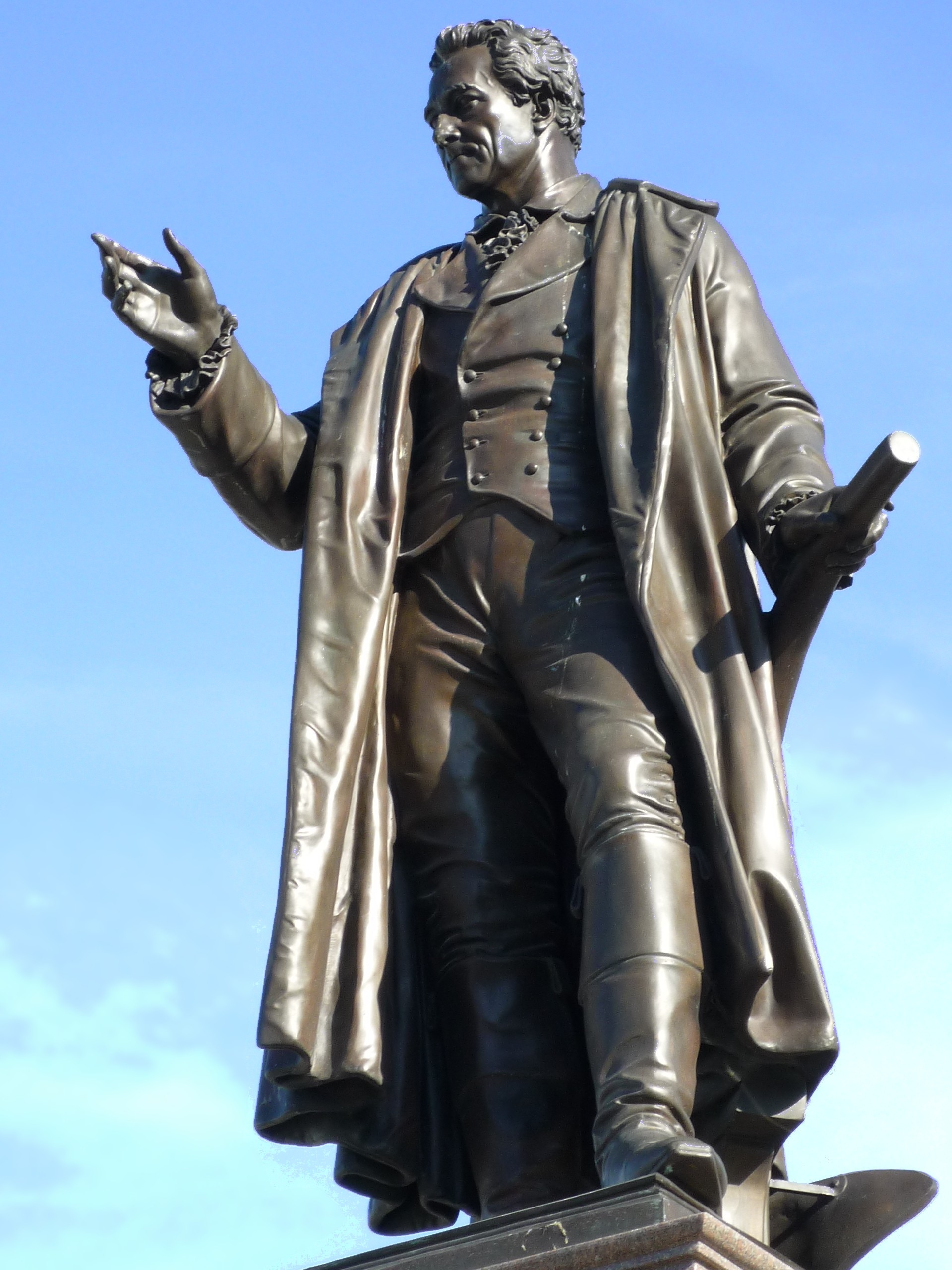 "Schinkelplatz" in Berlin-Mitte. Statue of Albrecht Thaer (Copy). Sculptors were Christian Daniel Rauch and Hugo Hagen. The origin is standing in Berlin-Mitte, Invalidenstraße, University of Humboldt.